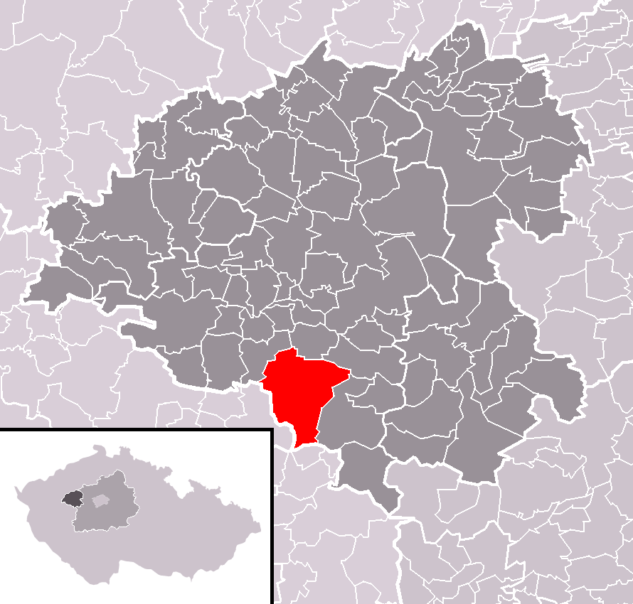 Location of Slabce municipality within Rakovník District and (identical) administrative area of Rakovník as a Municipality with Extended Competence.